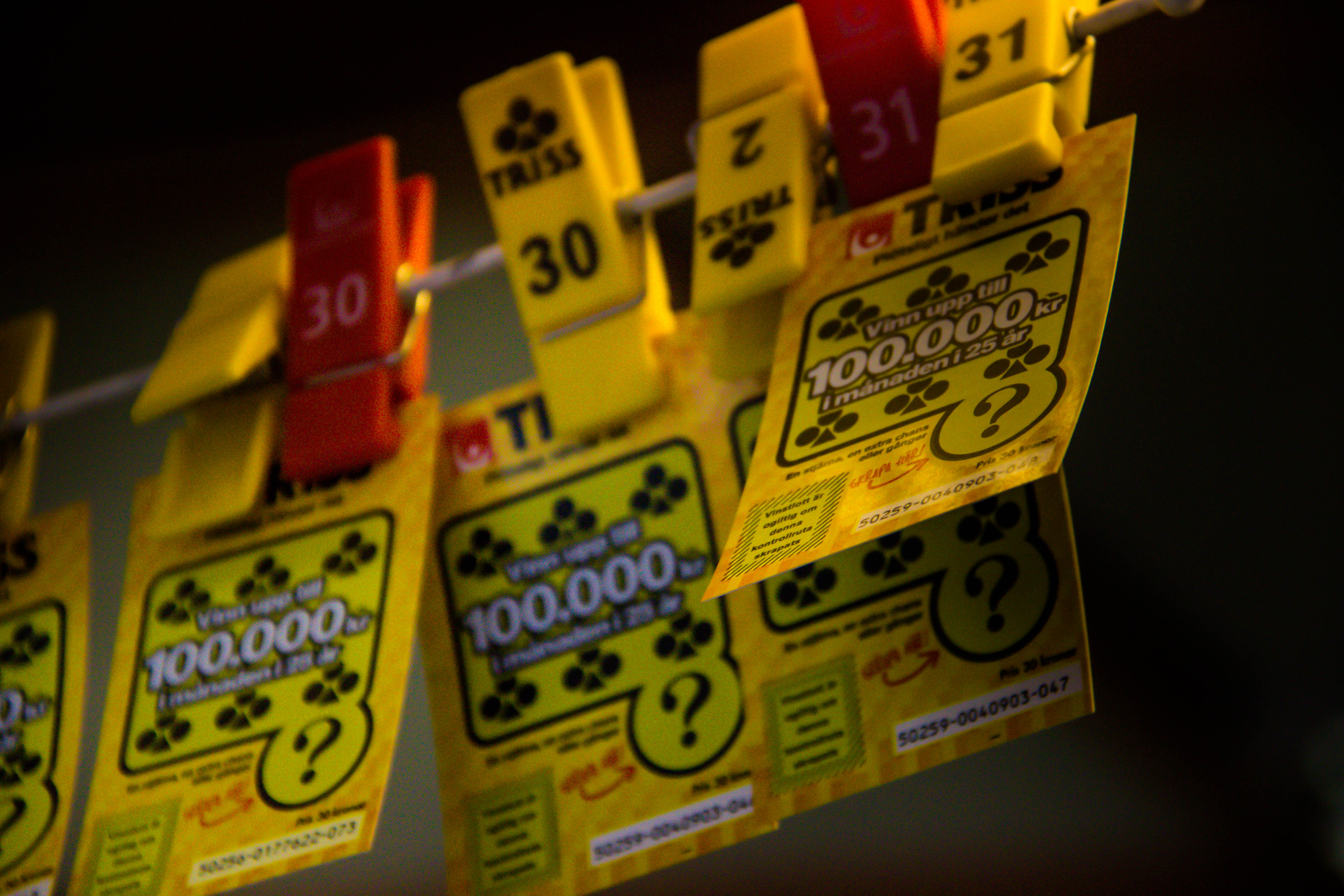 Photo for this weeks theme triss (somewhat like three) for the group Fotosöndag (Photo Sunday). These lottery tickets are called Triss.